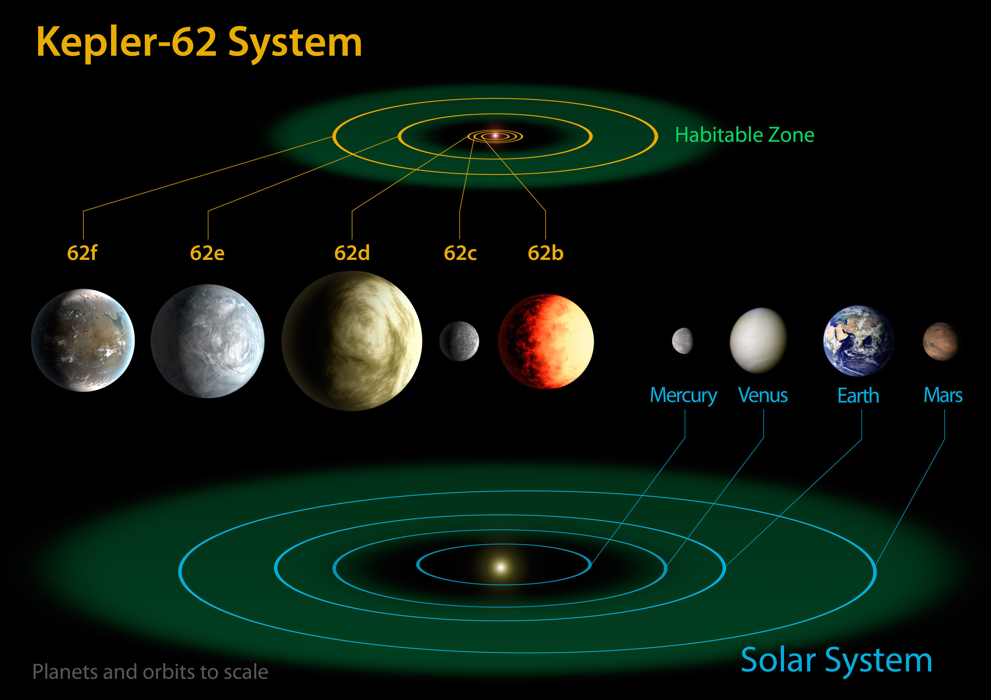 The diagram compares the planets of the inner solar system to Kepler-62, a five-planet system about 1,200 light-years from Earth.